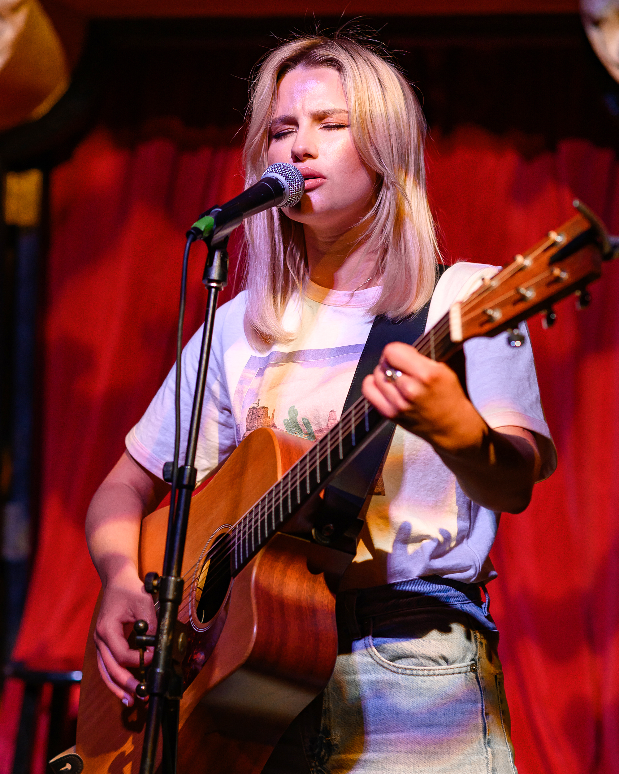 Graace performing live at School Night at Bardot Hollywood in Los Angeles, California, on Monday, February 11, 2019.